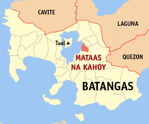 Map of Batangas showing the location of Mataas na Kahoy